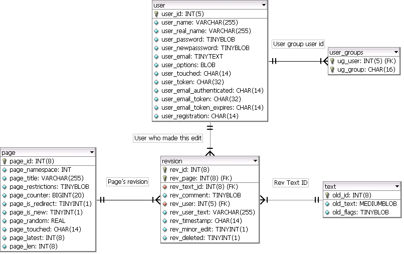 A data model diagram describing a wiki system (a part of MediaWiki database schema) in Information Engineering notation.